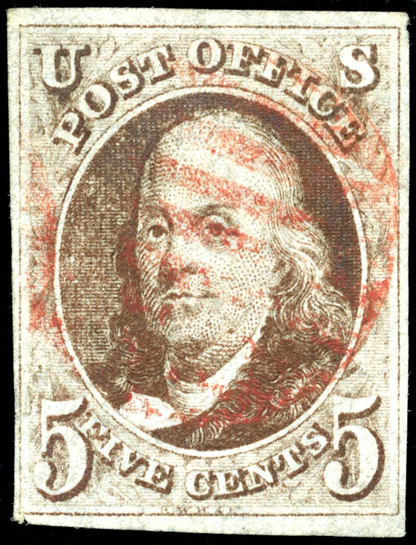 United States 5-cent postage stamp of 1847